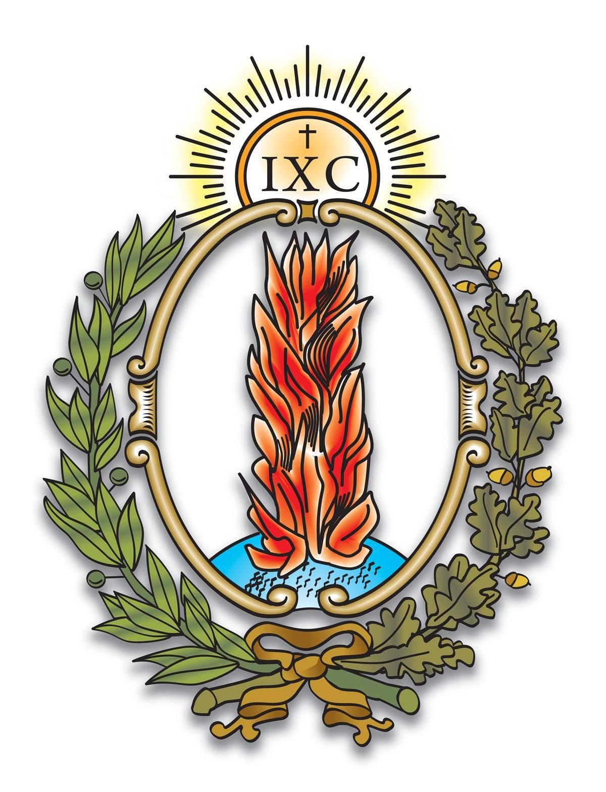 Coat of arms of OSBM